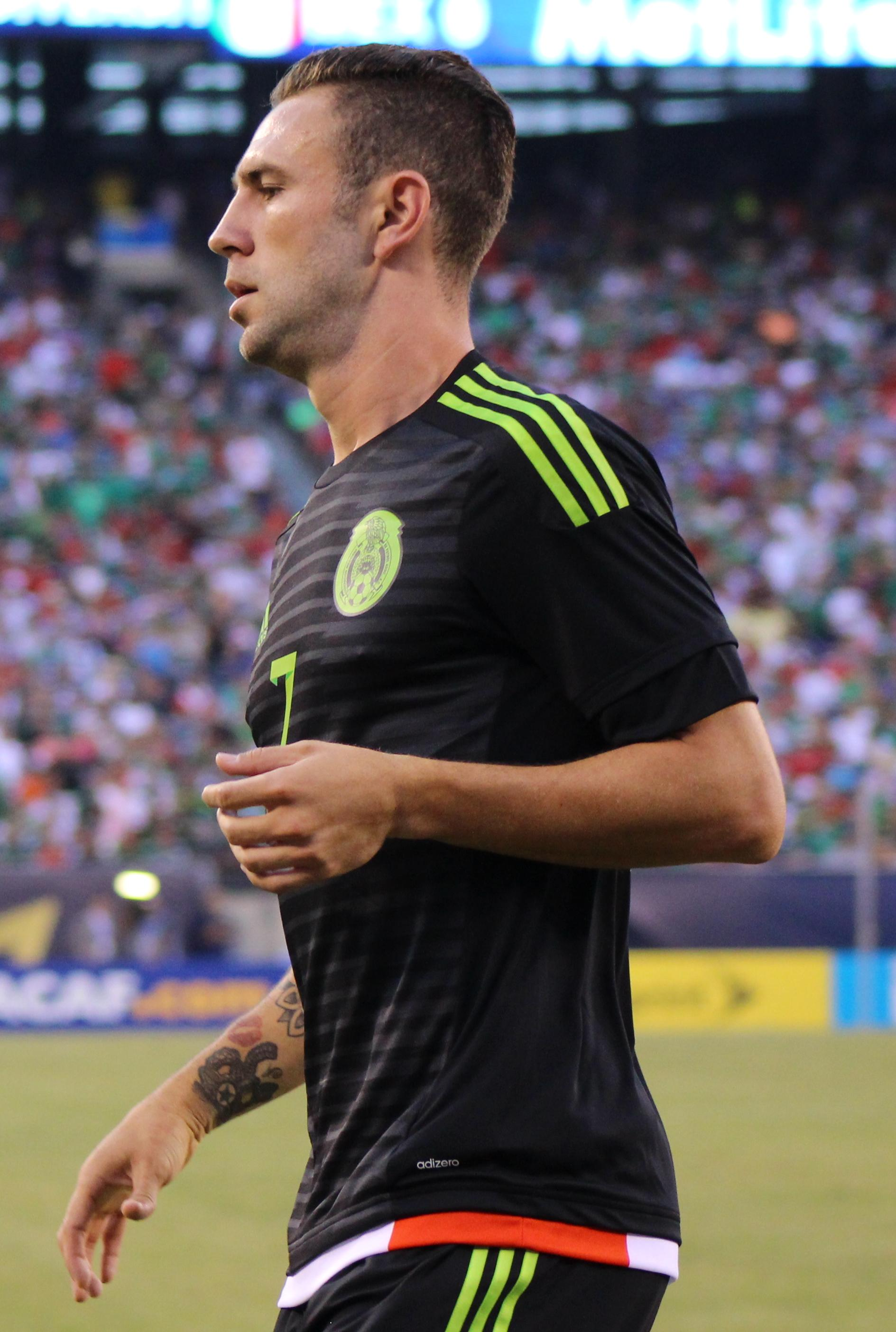 Mexican footballer Miguel Layún